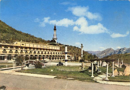 Consonno (Italy) before 1976